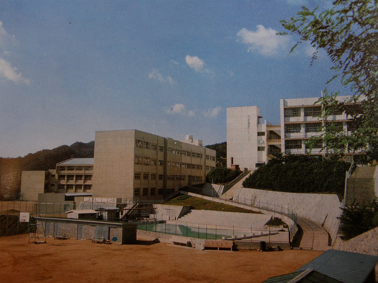 1973hibarigaoka_Junior high school